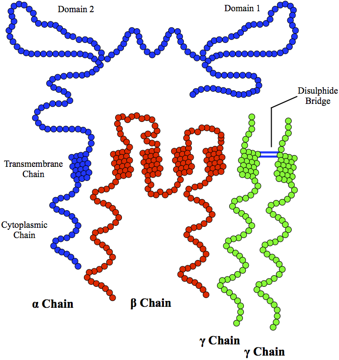 This is the structure of the high-affinity FcεRI (IgE) receptor.